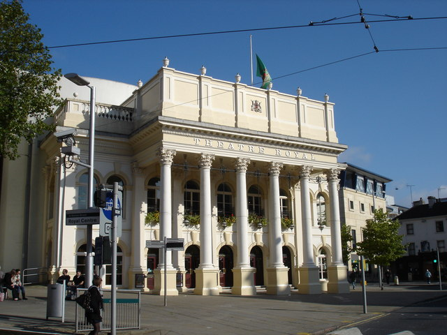 Theatre Royal, Nottingham